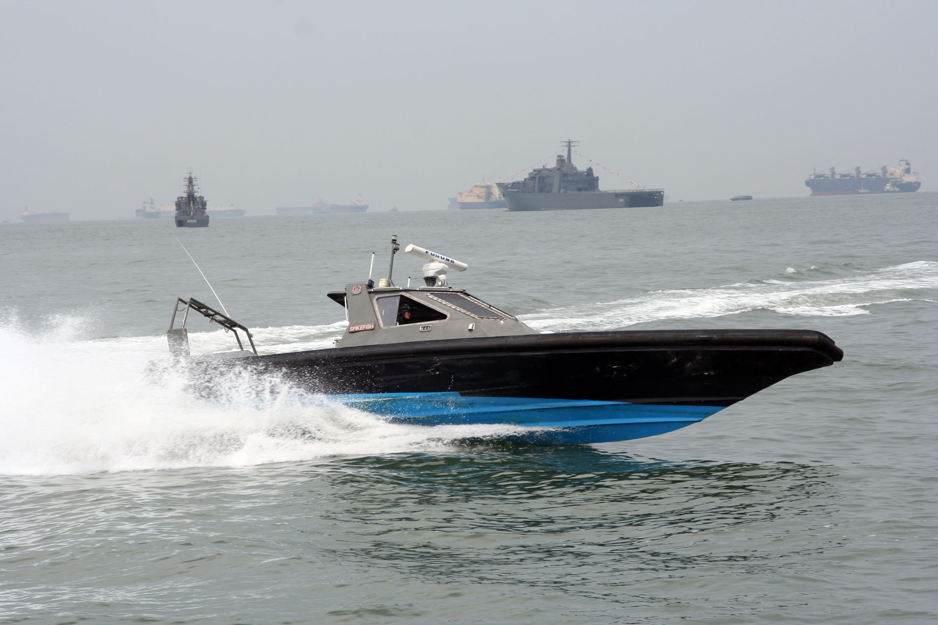 Description: Special Task Squadron boat demonstrating its capabilities during a maritime exercise mockup display. Source: Self-made Location: Marina South, Singapore Date: 14/08/2005 14:09 Photographer/Painter: Huaiwei